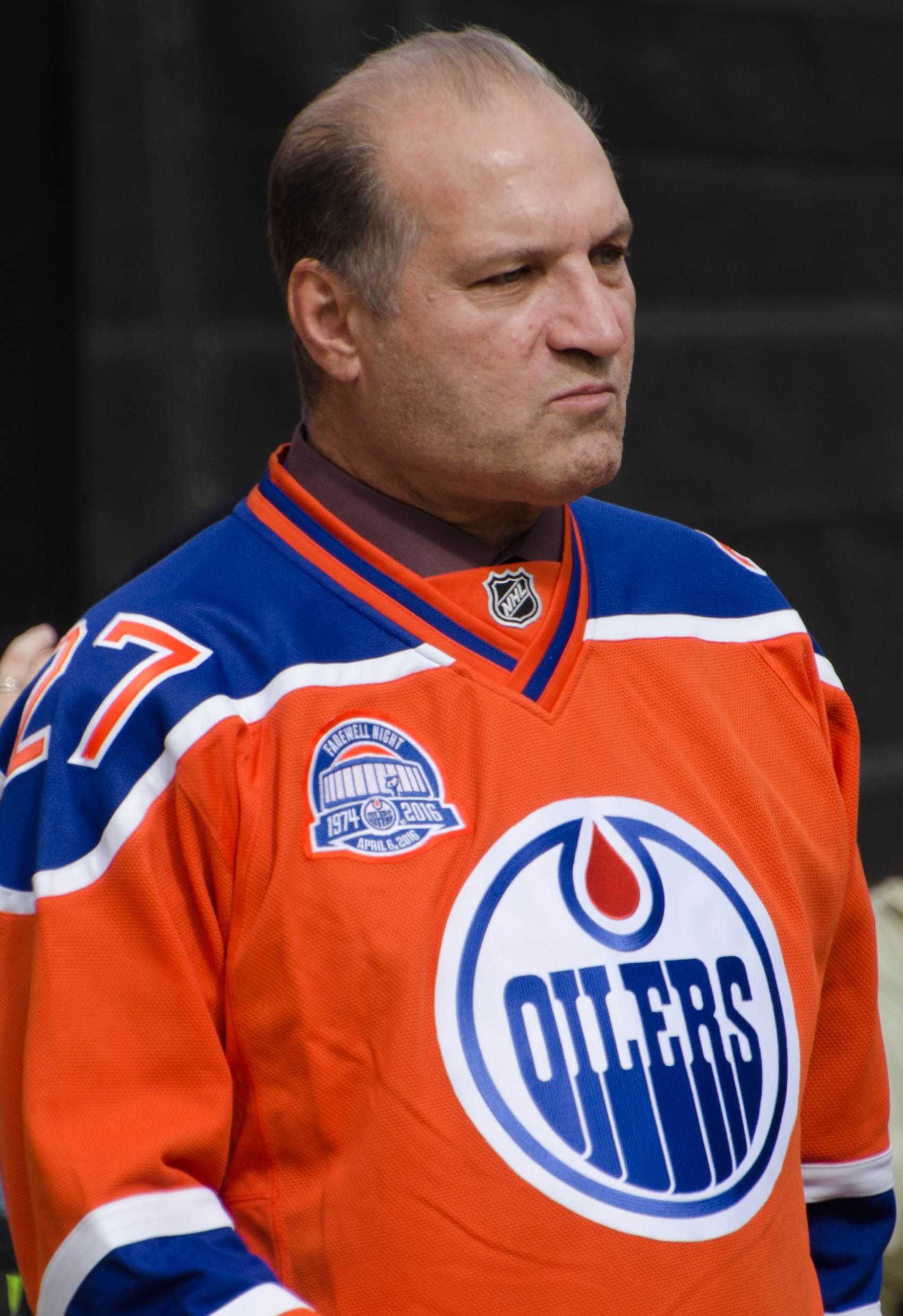 Dave Semenko in April 2016 at Edmonton Oilers farewell to Rexall Place